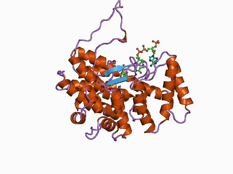 Cartoon representation of the molecular structure of protein registered with 1a59 code.